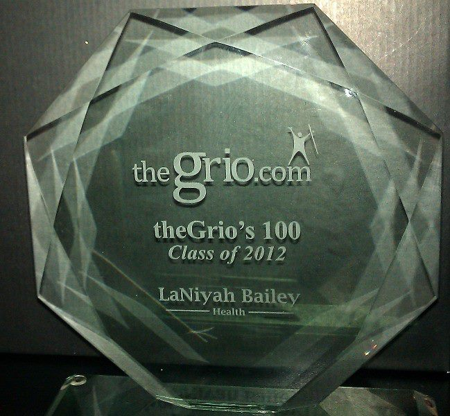 7 year old author, LaNiyah Bailey named on “The Grio’s 100: History Makers in the Making" list for 2012